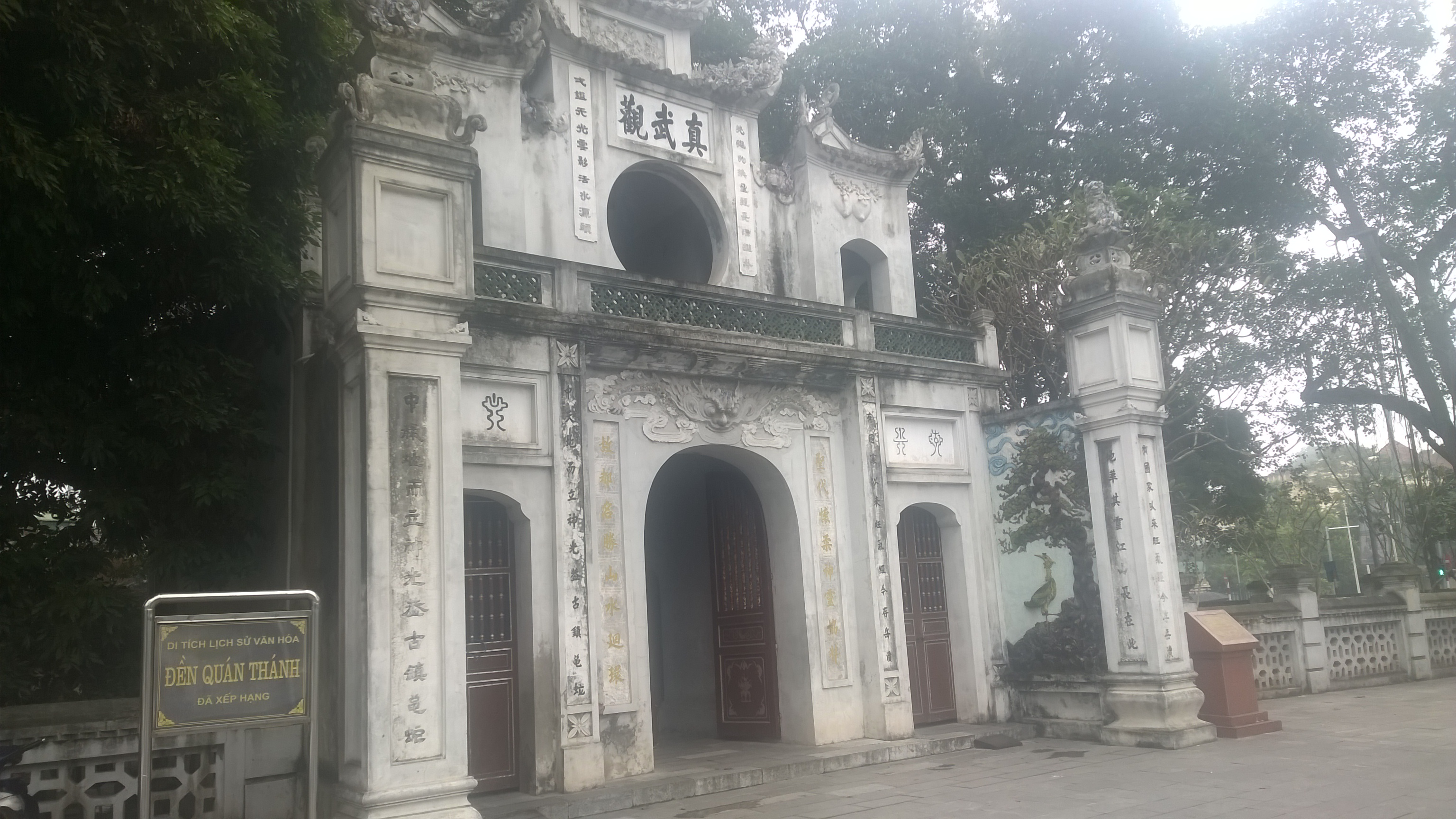 The Den Quan Thanh temple in 2014.